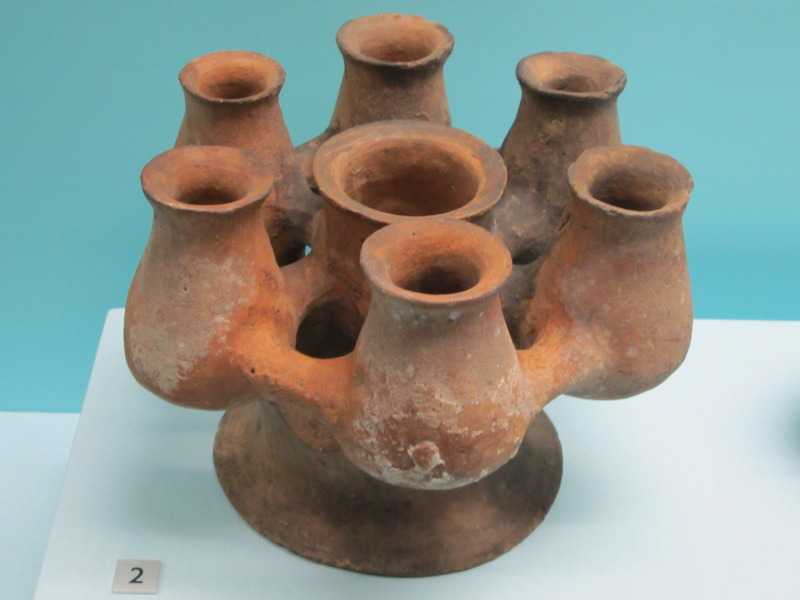 Kernos, World Museum Liverpool, England. Early Cycladic IIIB (2300-2200 BC).